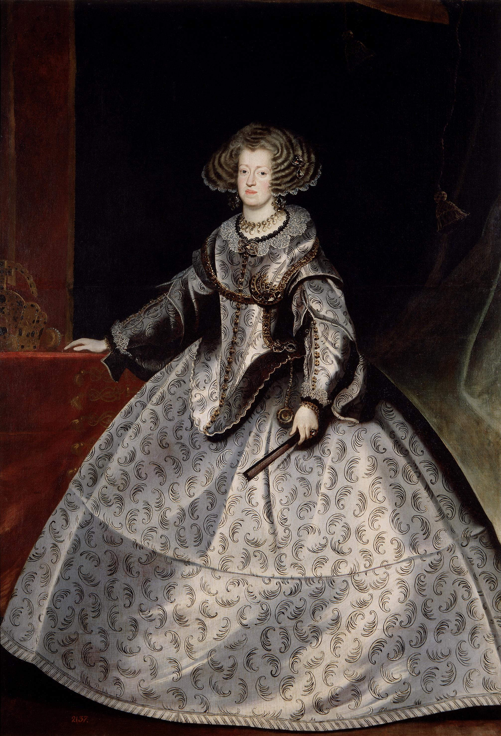 Maria of Austria, Queen of Hungary